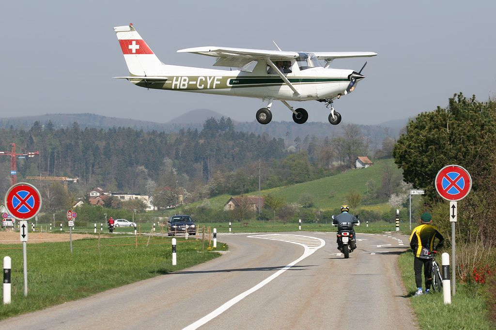 A small Cessna aircraft about to land on an unidentified airport in Switzerland